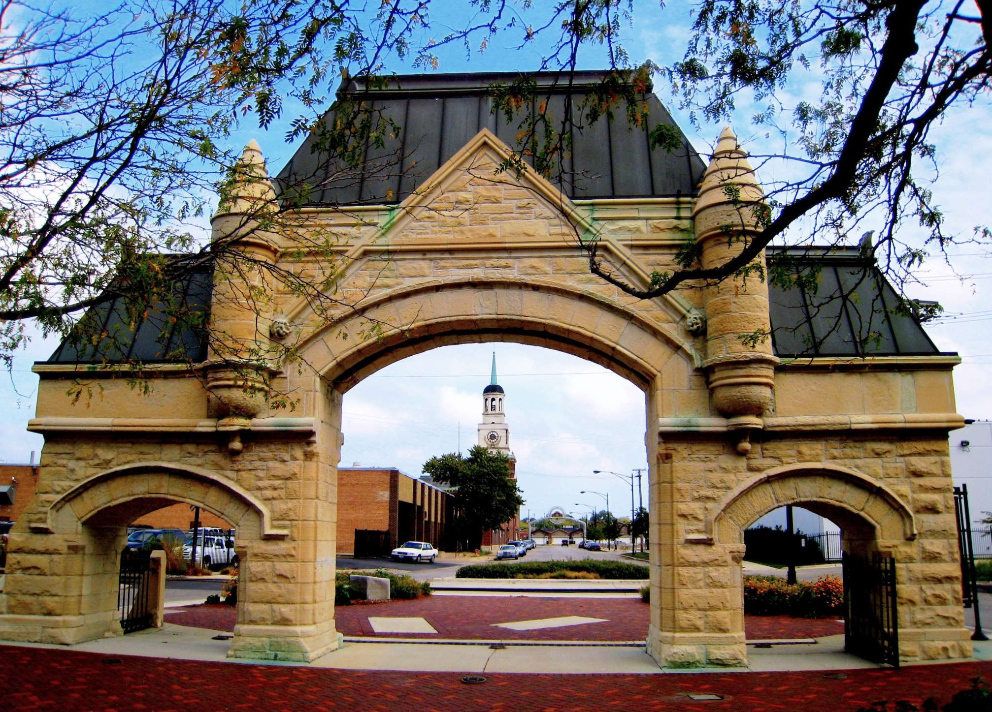 Chicago's Union Stockyard Gate, Chicago.